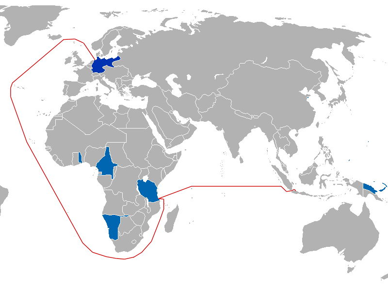 Journey of the auxiliary Ship Marie (Blockade runner 15) from Wilhelmshaven to Batavia (now Jakarta) via Sudi Bay in German East Africa (January 1916 - May 1916).